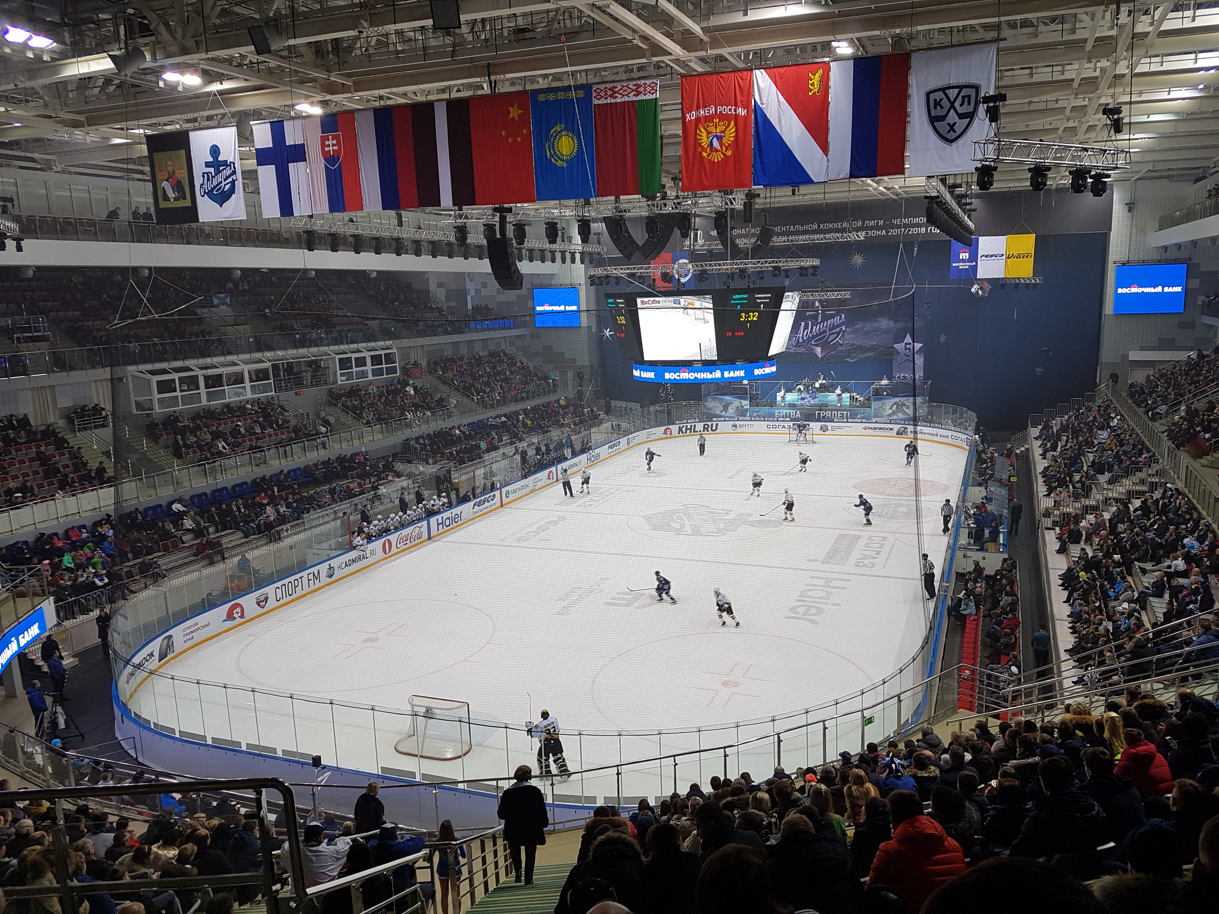 Fetisov Arena on December 24, 2017 during a Kontinental Hockey League match between Admiral Vladivostok and Severstal Cherepovets